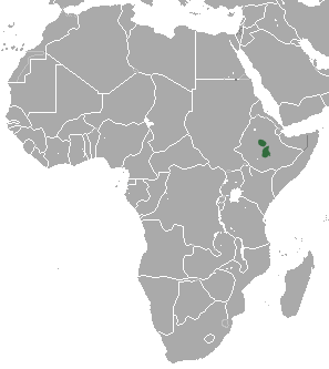 Ethiopian Highland Hare (Lepus starcki) range